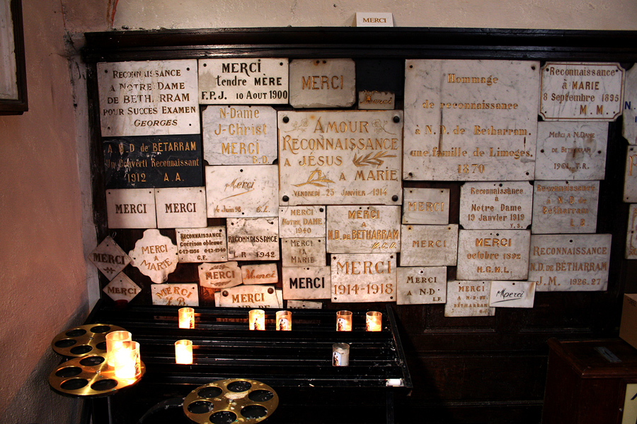 Ex Votos in the church of Betharram (France)